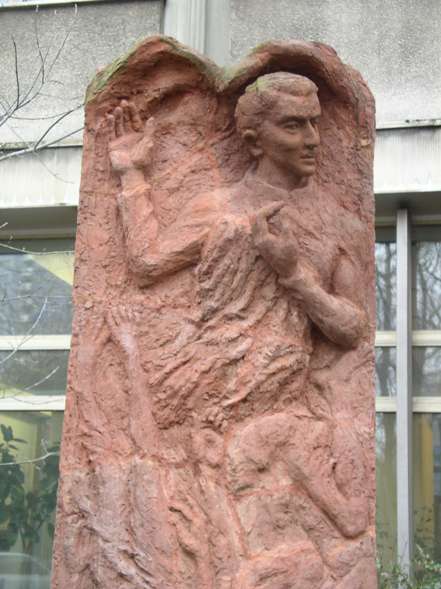 Relief of Karl Liebknecht from Ingeborg Huntzinger, standing in front of the Neues Deutschland building, Franz-Mehring-Platz, Friedrichshain, Berlin.